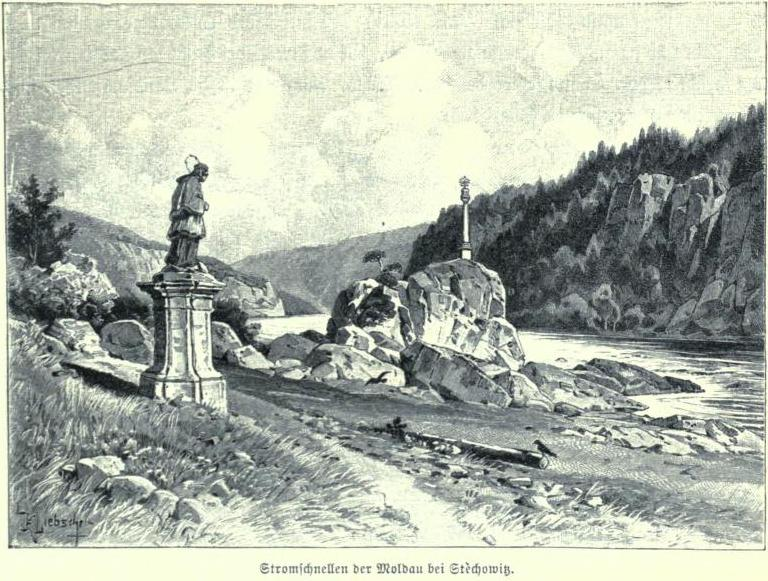 St. John's Currents (in